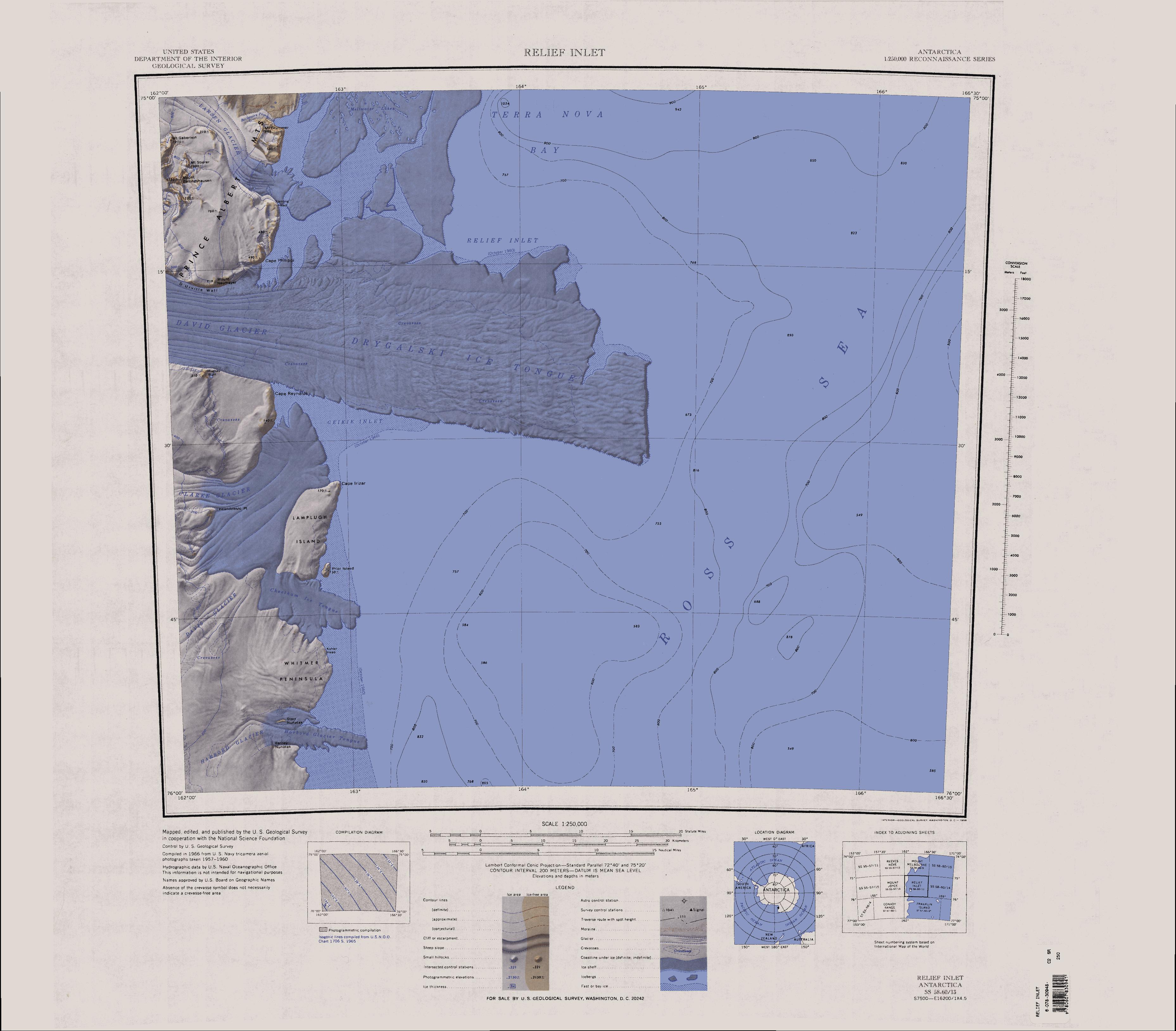 Map of Antarctica by the United States Antarctic Resource Center of the US Geological Society.